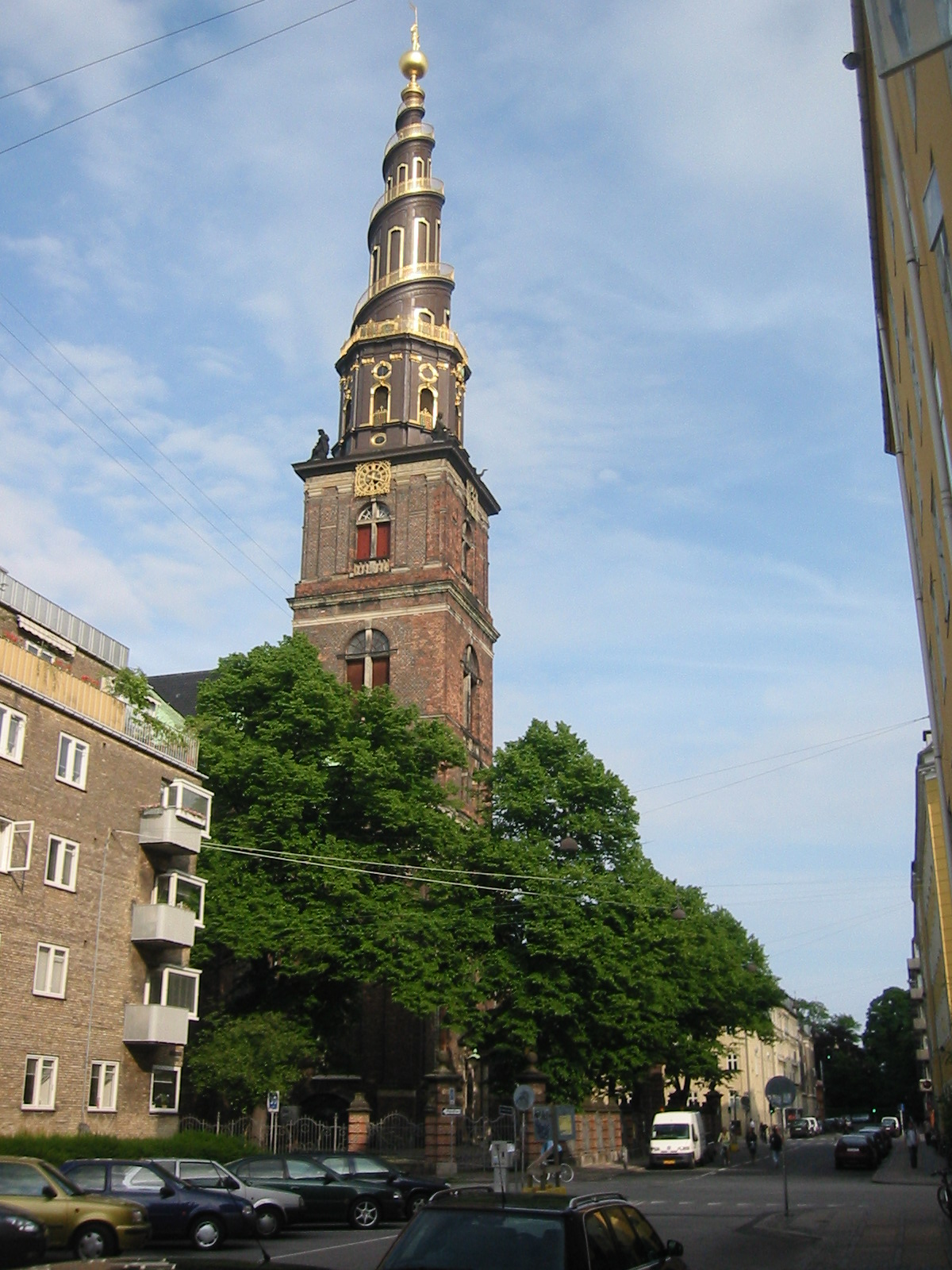 Saviours Church tower, Copenhagen, Denmark